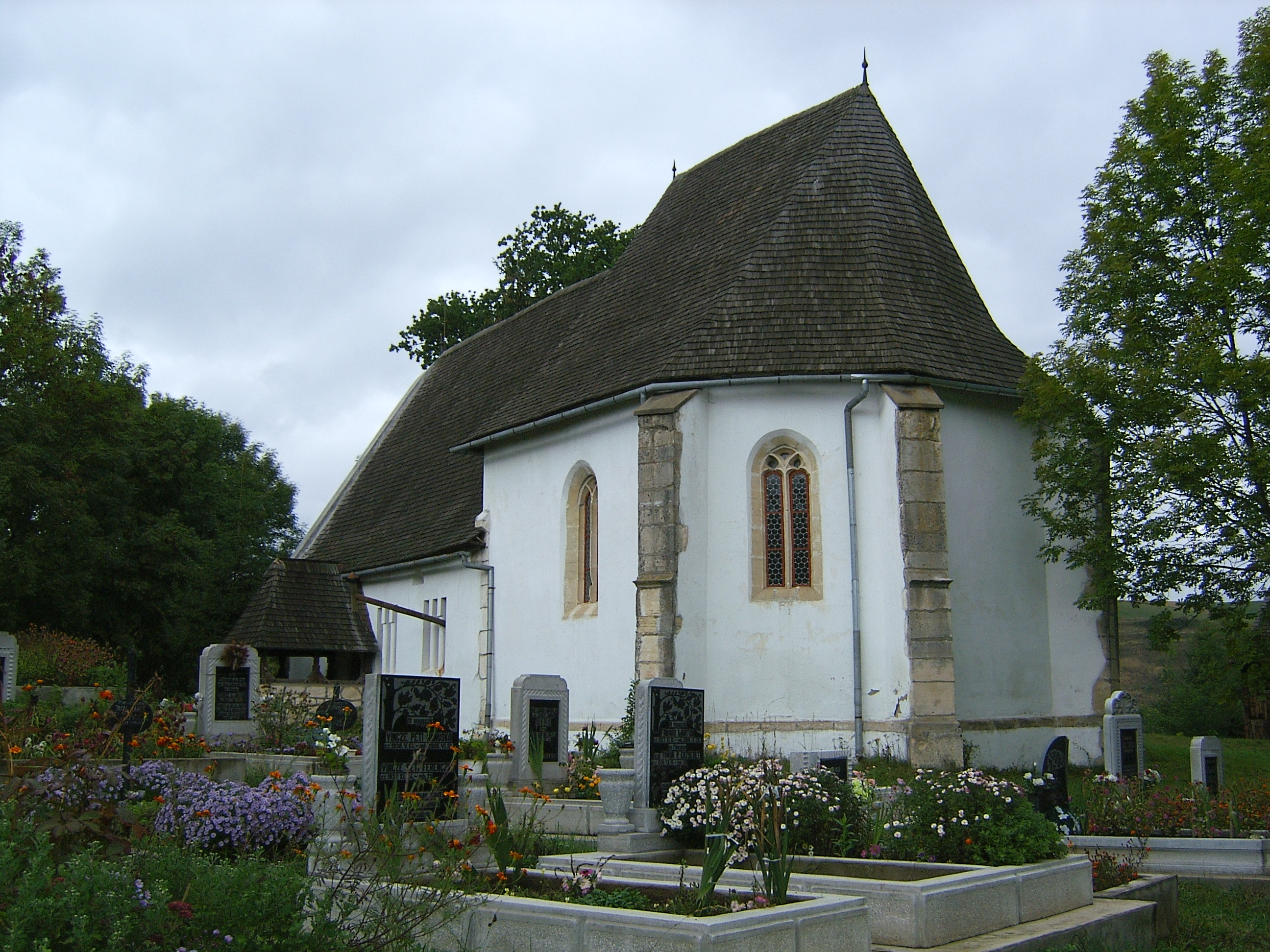 Reformated church of Căpuşu Mic, Transylvania